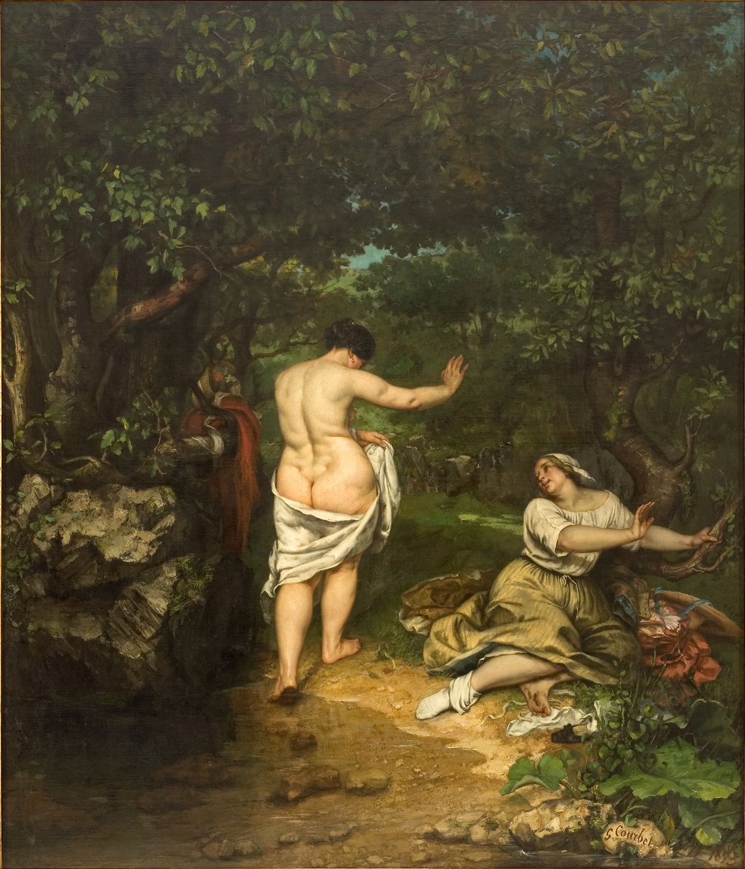 This is one of Courbet's three provocative works, the other two being the Wrestlers and the Sleeping Woman. The picture itself was larger than usual. He challenged the typical depictions of a nude body, with dirty feet and heavy figure. It was purchased for 3,000 francs by a man who would become his friend.